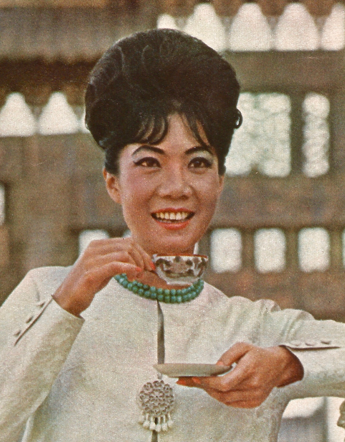 Actress Barbara Yu Ling during filming of 55 Days at Peking (Madrid, 1962)